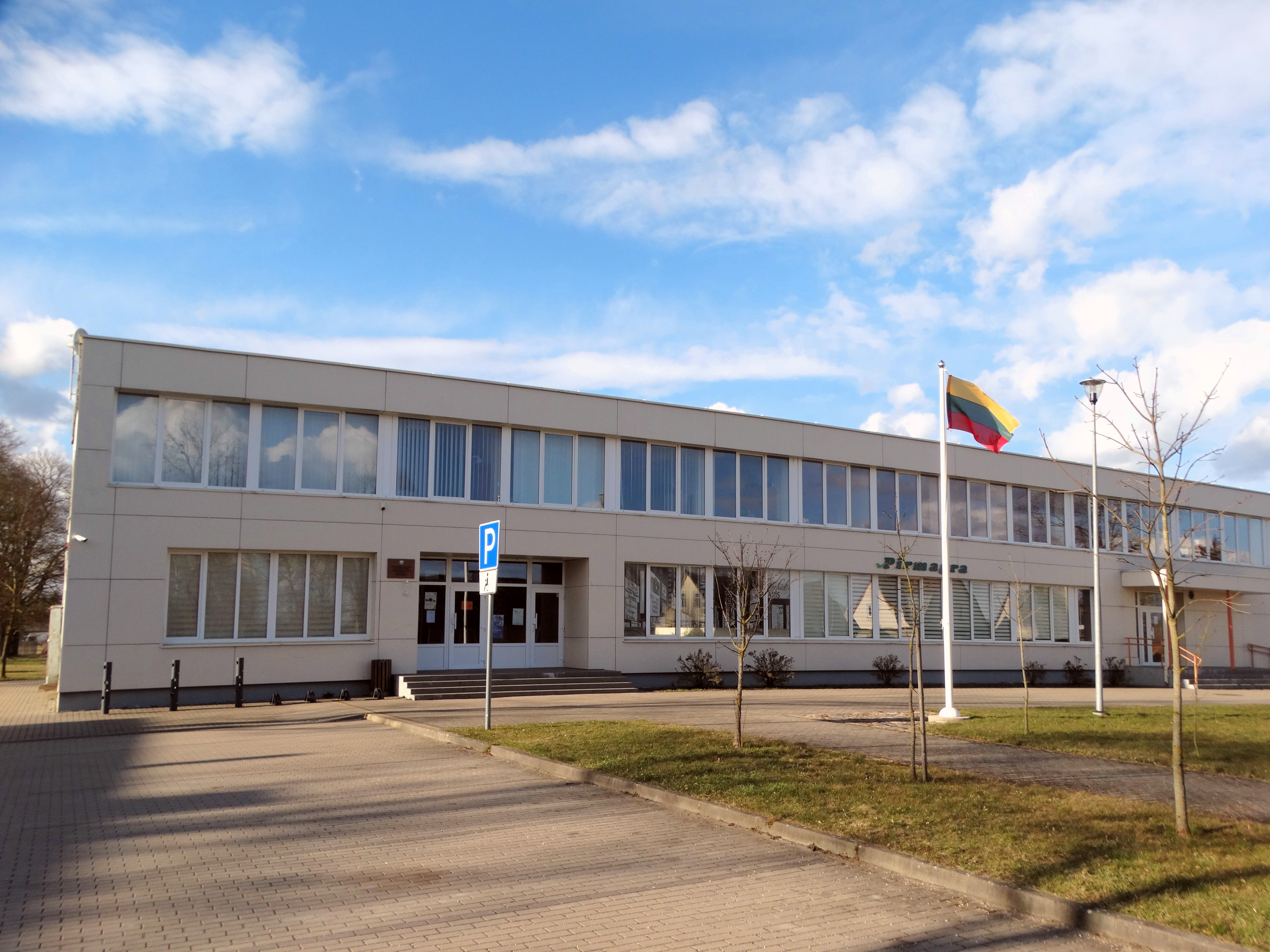 Eldership, Deltuva, Ukmergė District, Lithuania